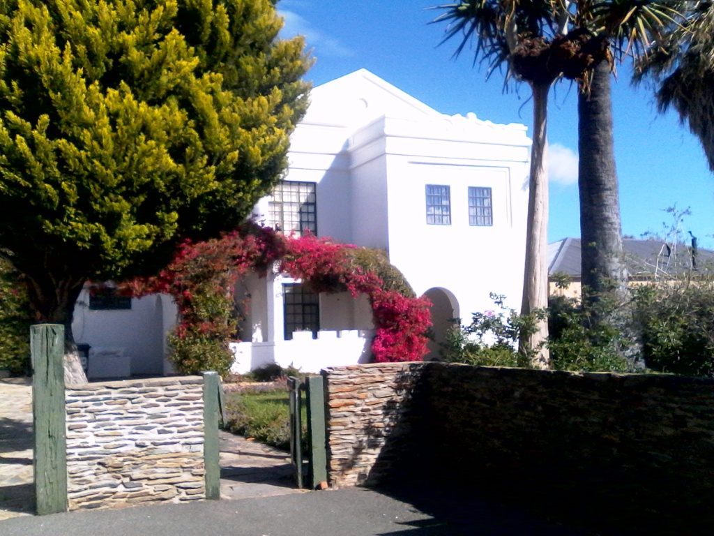 This impressive dwelling, which was erected during the first decade of the twentieth century by Hugo Naudé, the well-known artist, as home and studio, is predominantly in the neo-Classical idiom. He lived here until his death on 5 April 1941. This media shows a South African Protected Site with SAHRA file reference 9/2/110/0005-002.